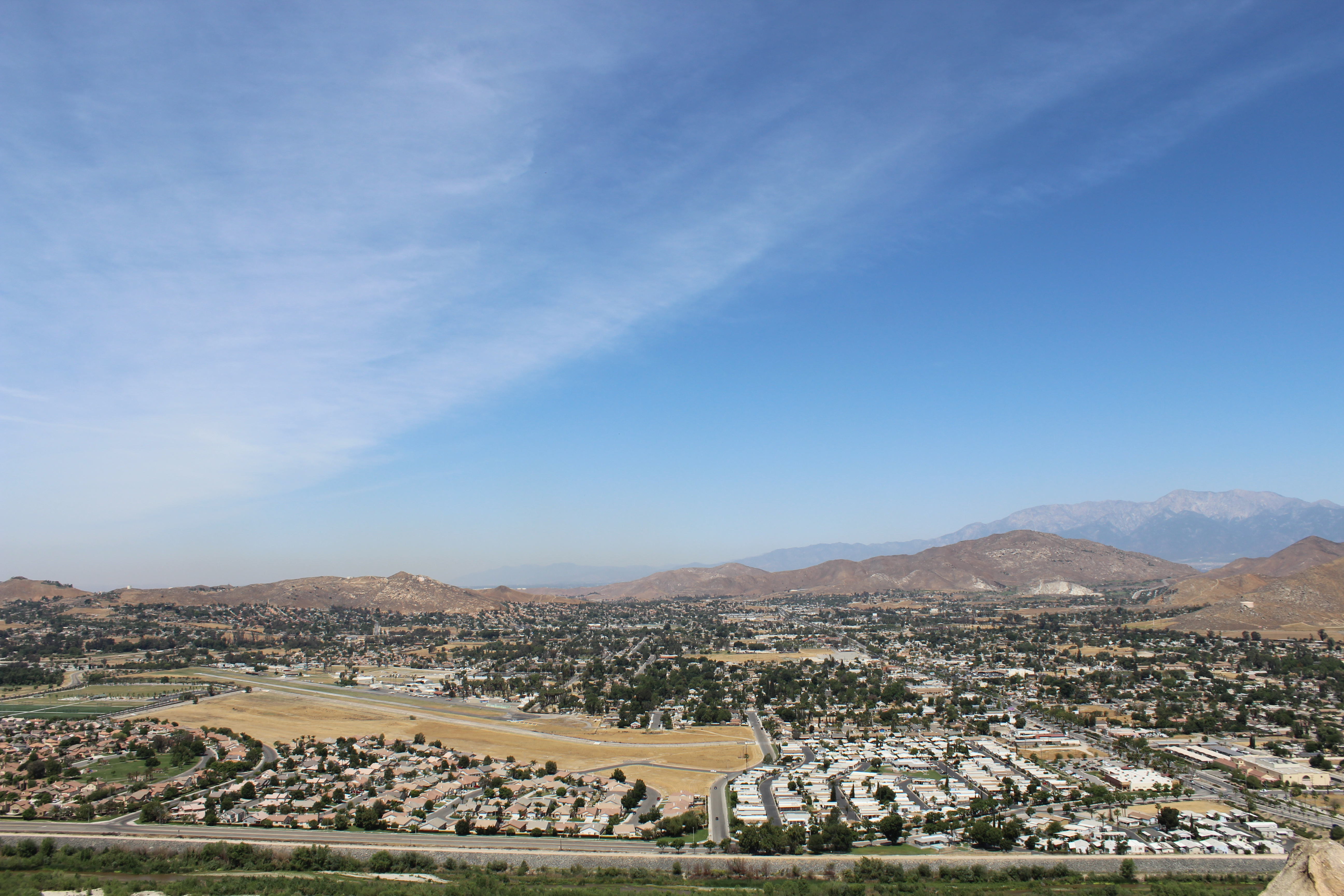 Jurupa Valley, California